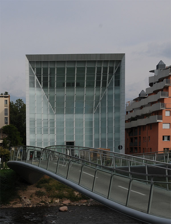 Museion- Museum of modern and contemporary art - Bolzano/Bozen (I)